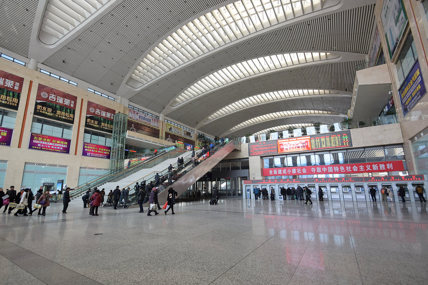 West entrance of Jilin Railway Station, a "Completing the Building of a Moderately Prosperous Society in all Respects" slogan was posted on the curtain wall.